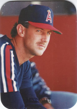 A baseball card of California Angels player Mike Witt from the 1987 Indiana Blue Sox set.